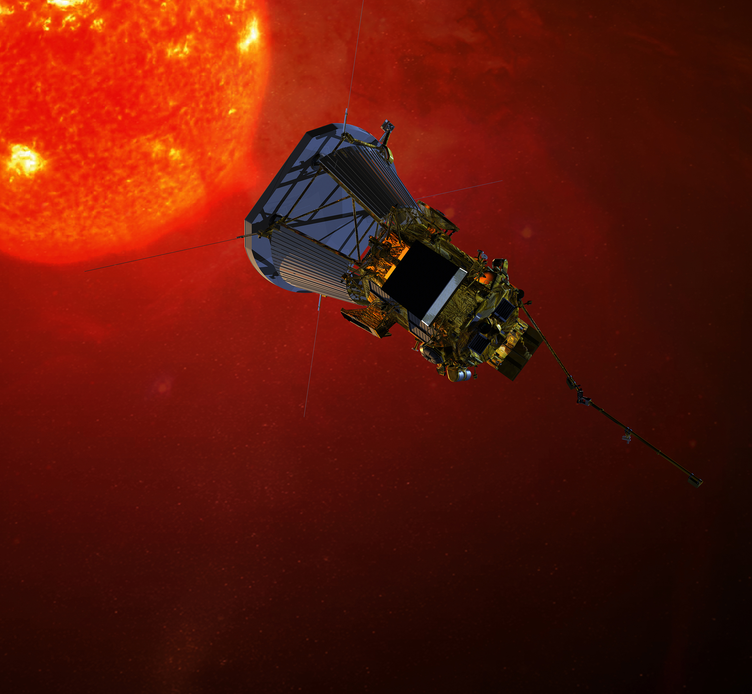 Artist’s impression of NASA’s Solar Probe Plus spacecraft on approach to the sun. Set to launch in 2018, Solar Probe Plus will orbit the sun 24 times, closing in with the help of seven Venus flybys. The spacecraft will carry 10 science instruments specifically designed to solve two key puzzles of solar physics: why the sun’s outer atmosphere is so much hotter than the sun’s visible surface, and what accelerates the solar wind that affects Earth and our solar system.